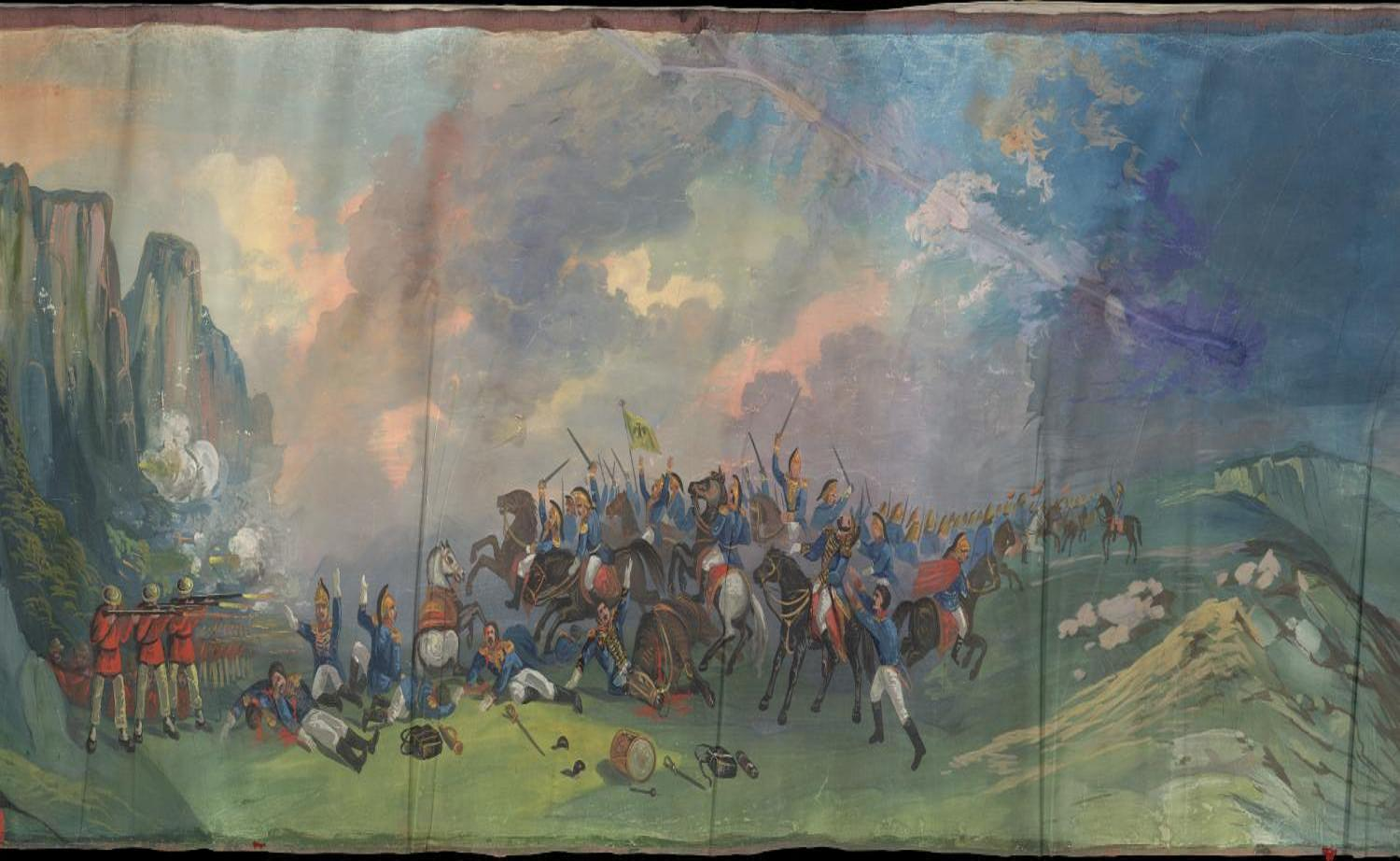 Attack of the Austrians Story, J. J. 1860